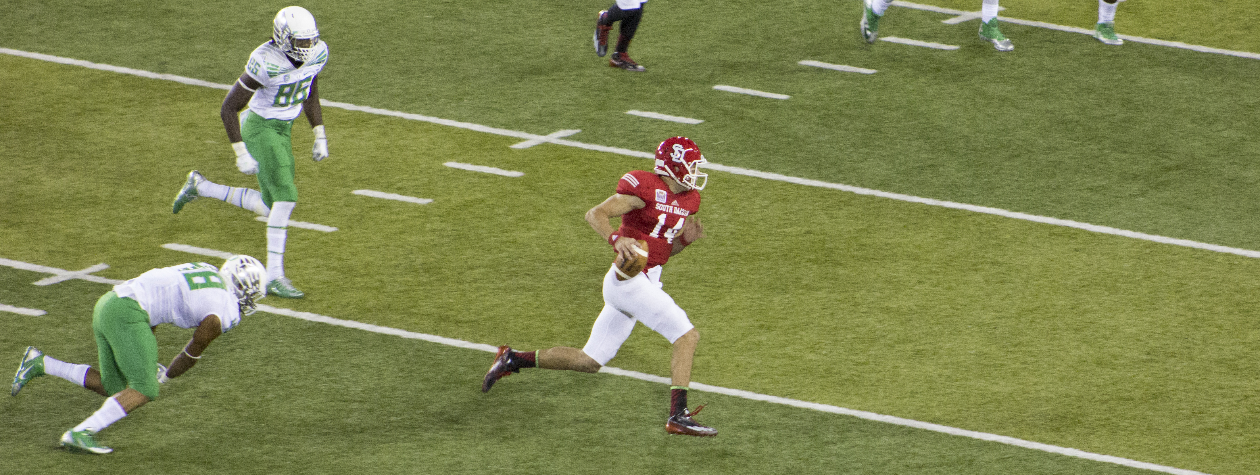 South Dakota quarterback Kevin Earl runs against Oregon on August 30, 2014